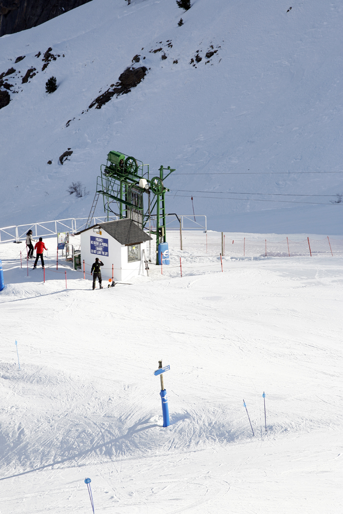 Ski lift in Aramon Panticosa ski resort. Spanish Pyrenees.